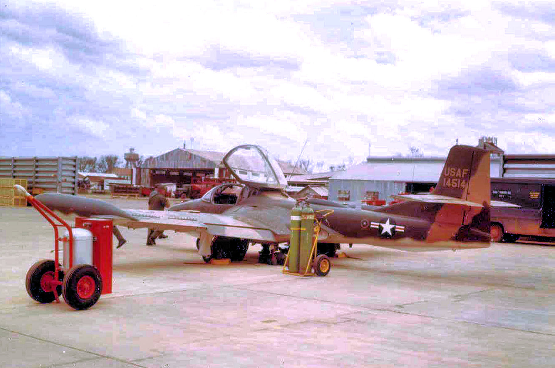 3d Tactical Fighter Wing A-37A Dragonfly 67-14515 BienHoa AB South Vietnam 1968